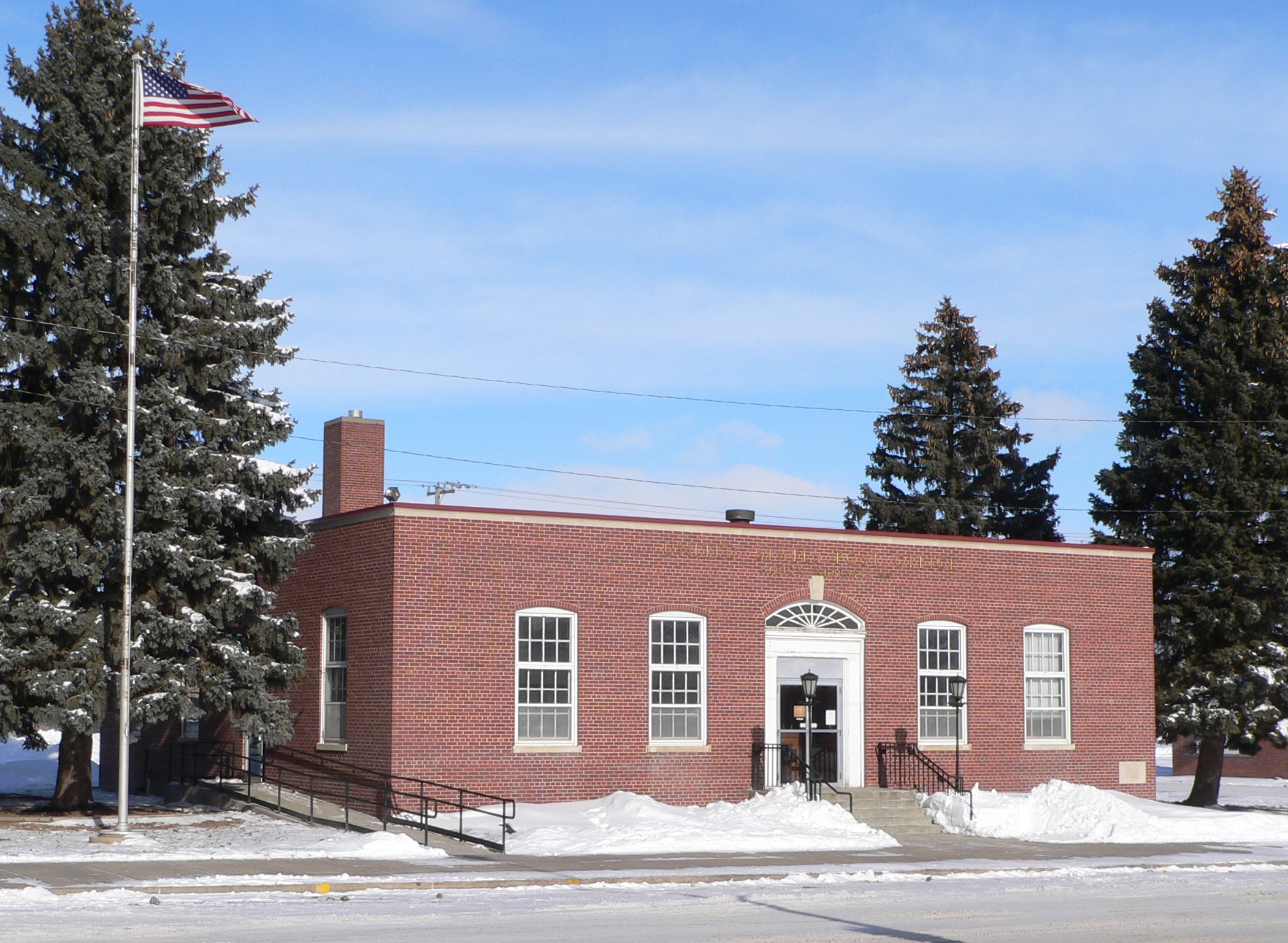 Post office in Albion, Nebraska, seen from the southwest. The building was designed in Colonial Revival style by architect Louis A. Simon, and built in 1937. It is listed in the National Register of Historic Places